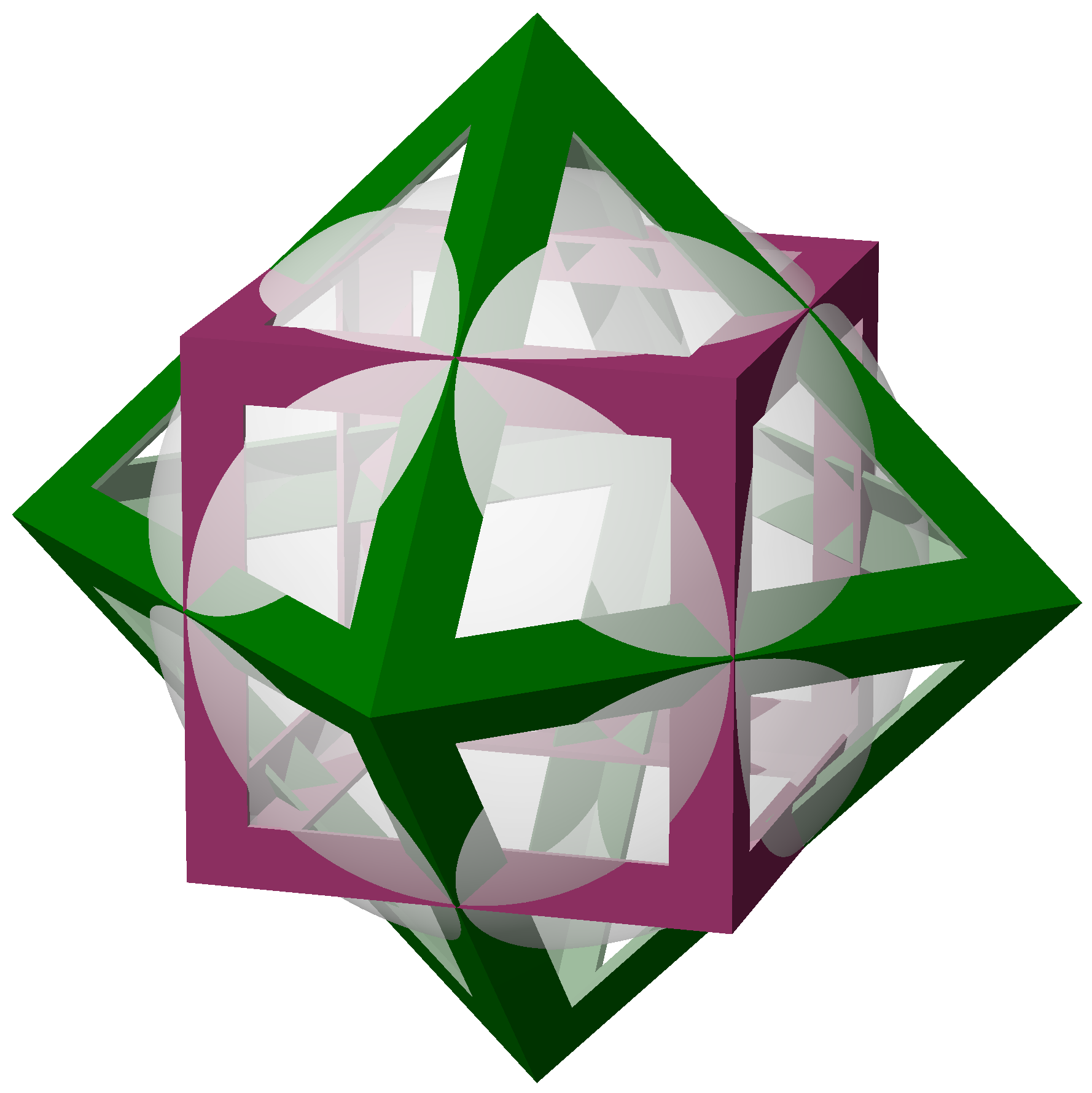 Image set Green and violet Platonic skeletonsPart of Skeletons of polyhedra (mostly green and violet) tetrahedron cube octahedron dodecahedron icosahedron Dual compounds (above) and Petrie polygons (below) of Platonic solids The images in this set have matching sizes. Please do not overwrite them with cropped versions. This image was created with POV-Ray.